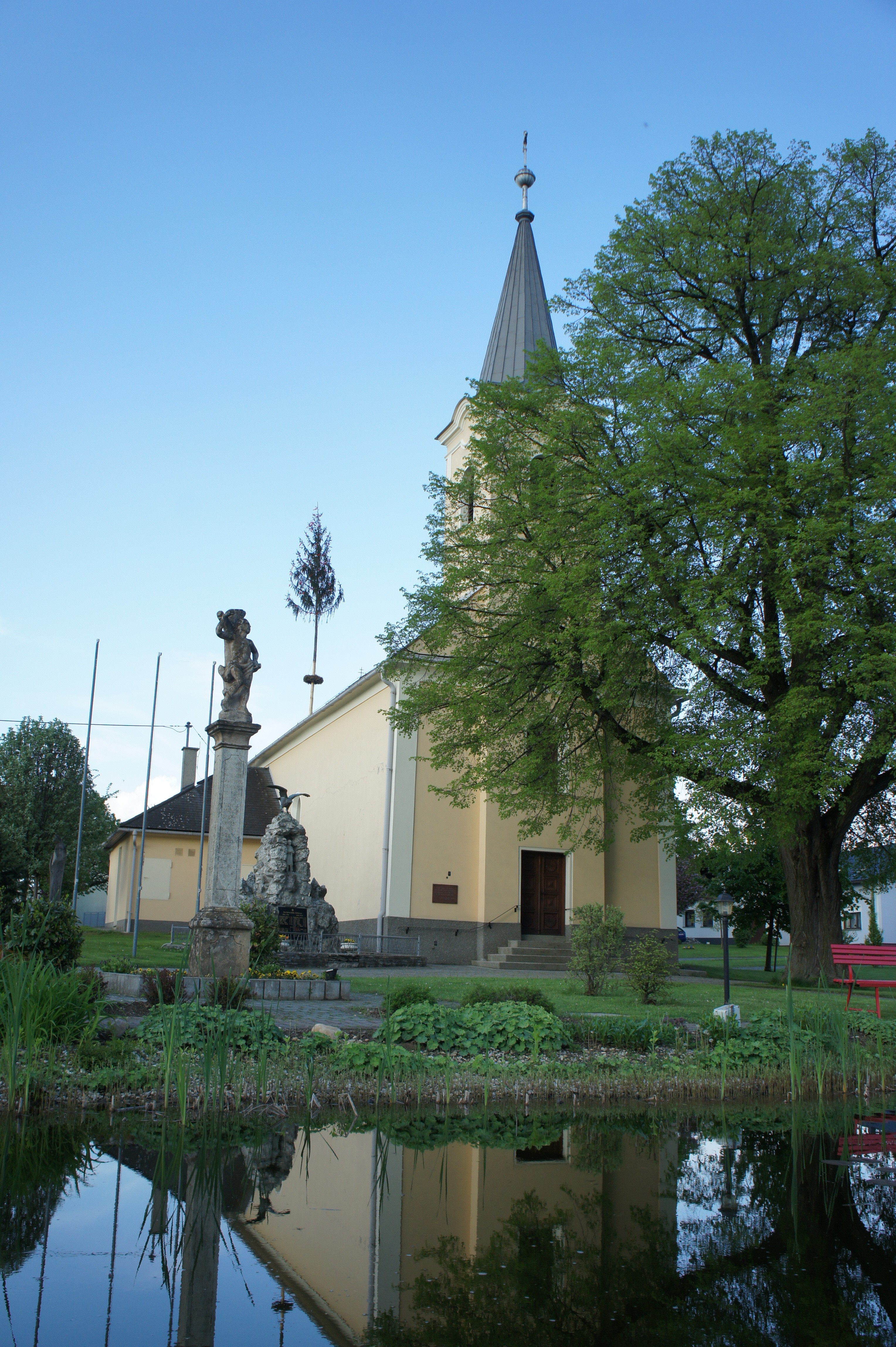 catholic church St. Ulrich, Lebenbrunn, Austria